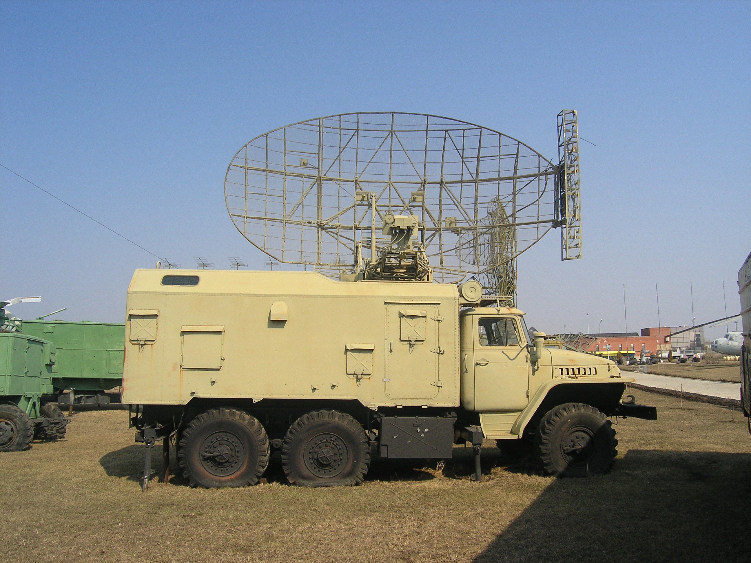 1L22 "Parole-4" Ground IFF Interrogator on Ural-375 Chassis. Technical museum Togliatti